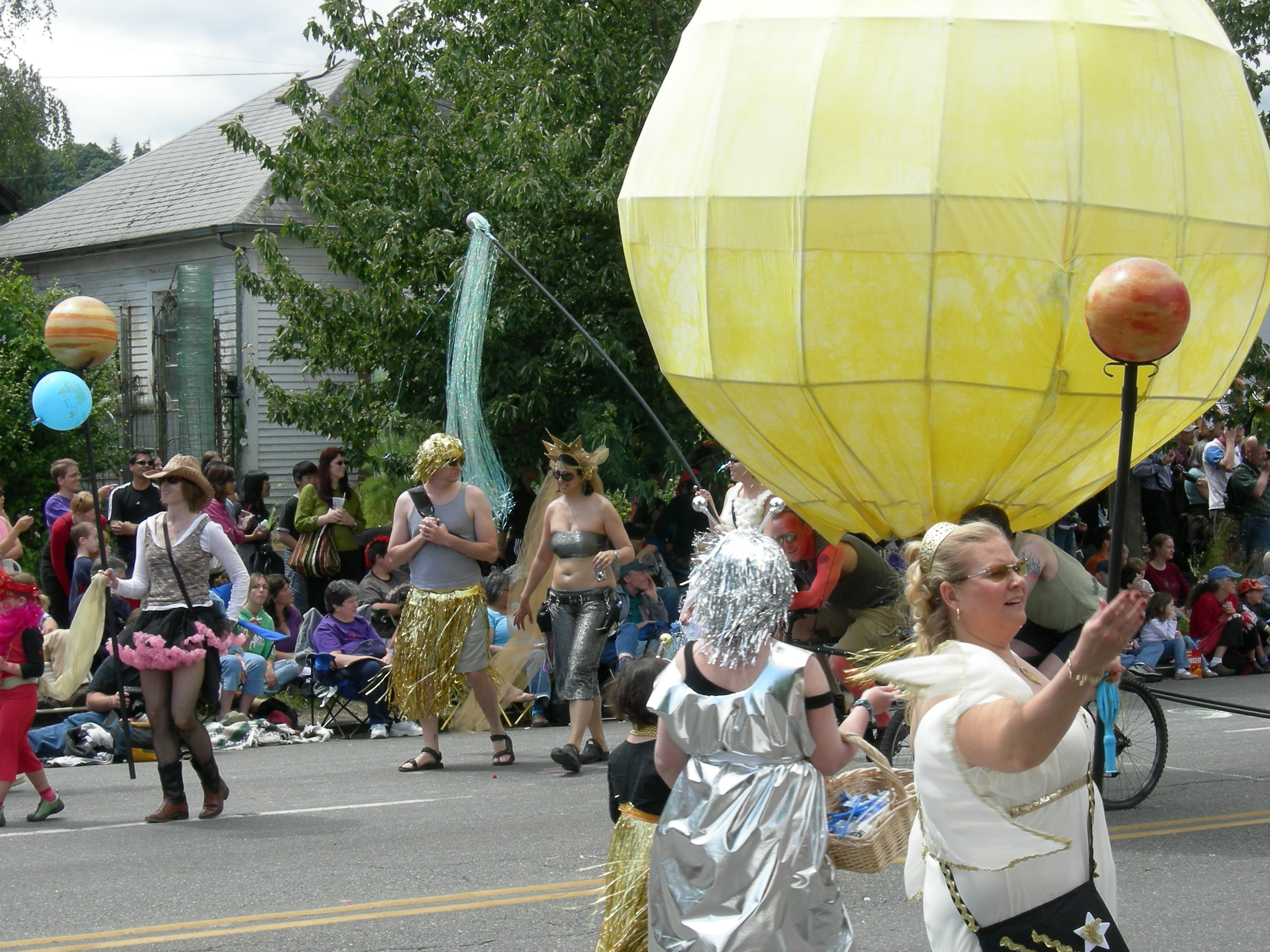 Contingent representing the Solar System, 2007 Summer Solstice Parade, Fremont Fair, Seattle, Washington.